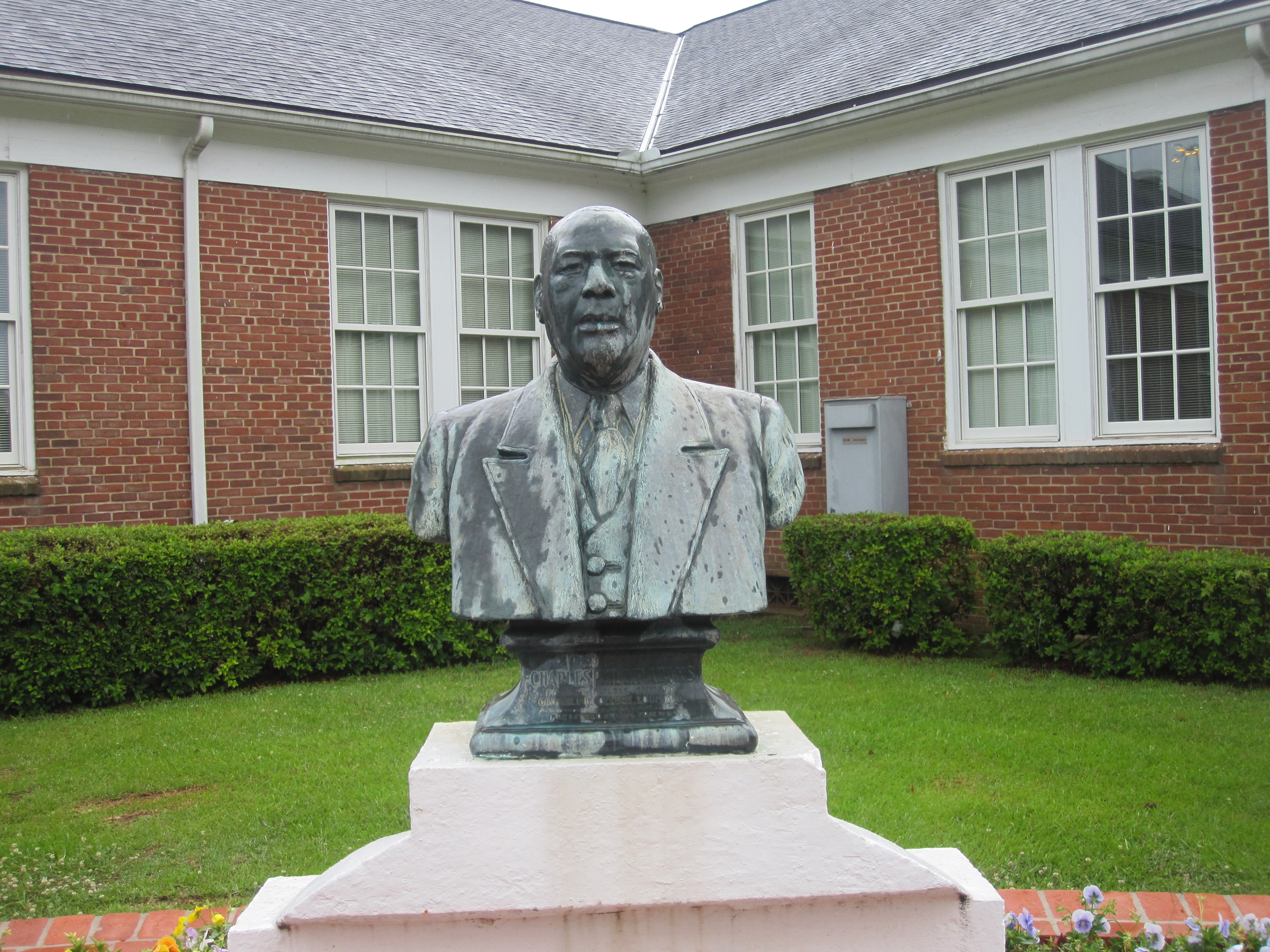 I took photo with Canon camera.